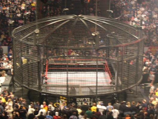 The Elimination Chamber featured at the WWE New Year's Revolution pay-per-view in Albany, New York.